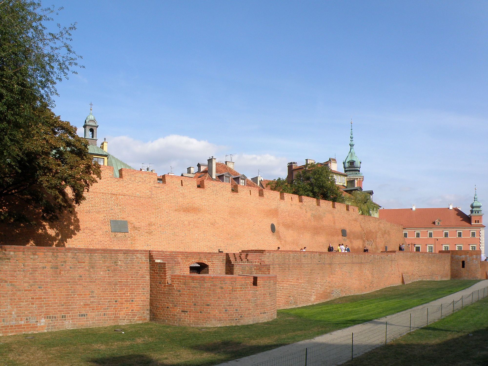 Poland, Podwale Street in Warsaw